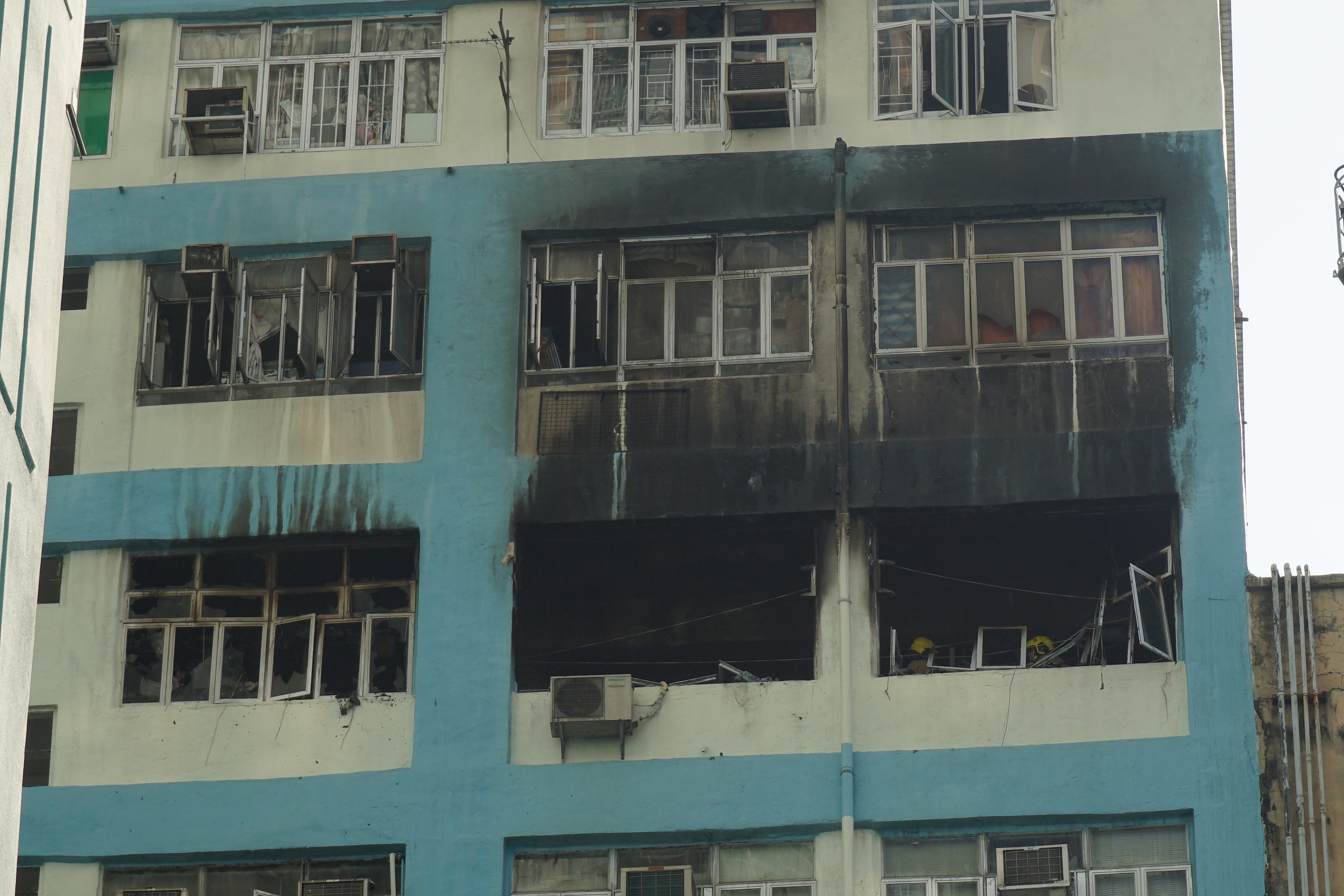 Cheong Fat Factory Building in Cheung Sha wan, Hong Kong.